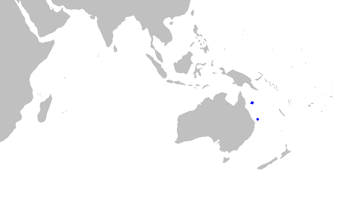 Distribution map for Etmopterus dislineatus